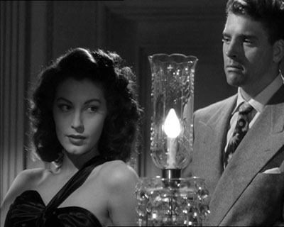 Screenshot of Ava Gardner and Burt Lancaster from the trailer for the film The Killers.